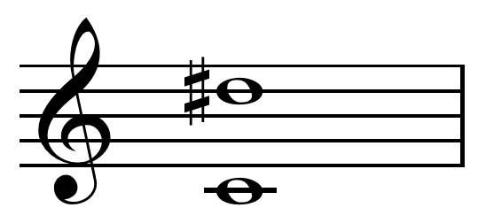 Octave and augmented second on C. Created by Hyacinth (talk) 22:04, 5 October 2010 using Sibelius 5. 22:04, 5 October 2010